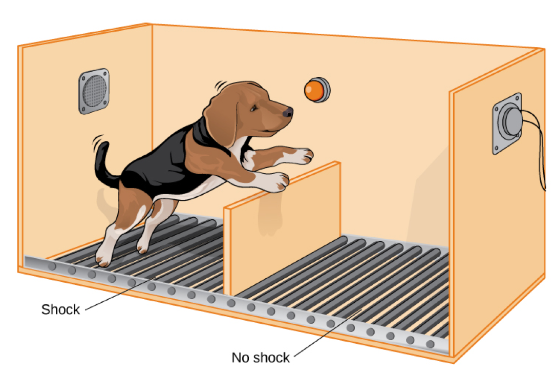 Figure 14.22 Seligman’s learned helplessness experiments with dogs used an apparatus that measured when the animals would move from a floor delivering shocks to one without.